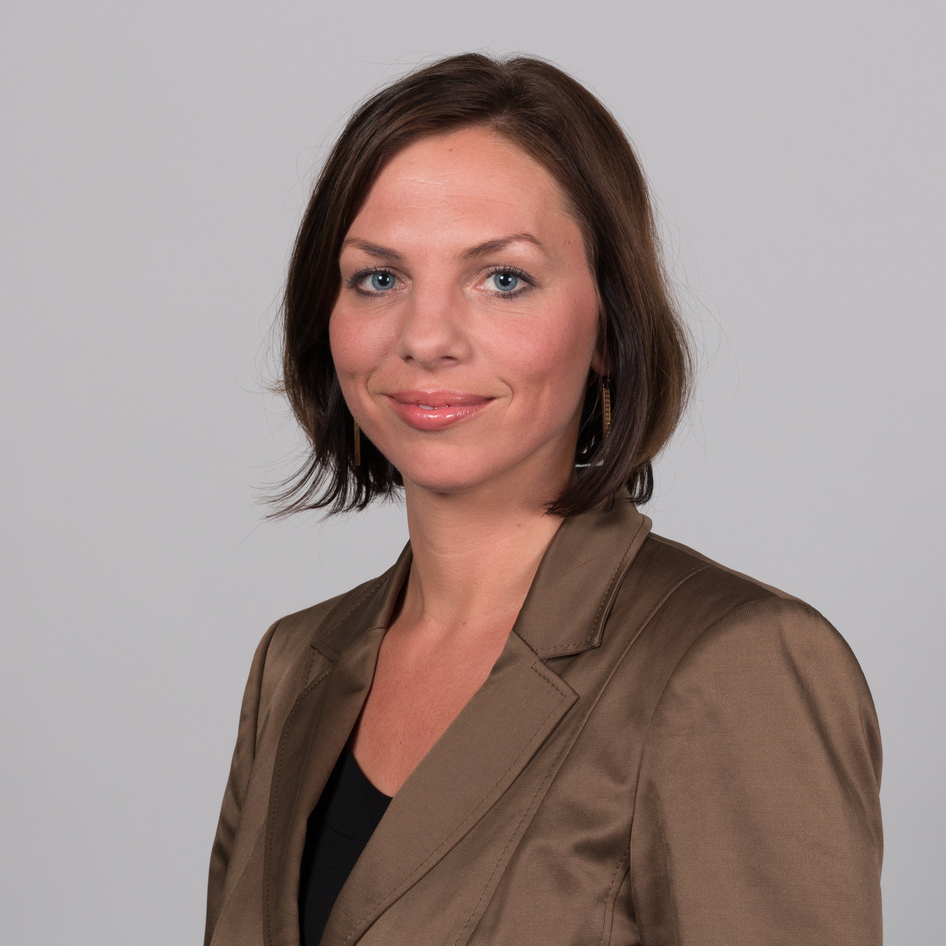 Susanna_Karawanskij MdL, Die Linke